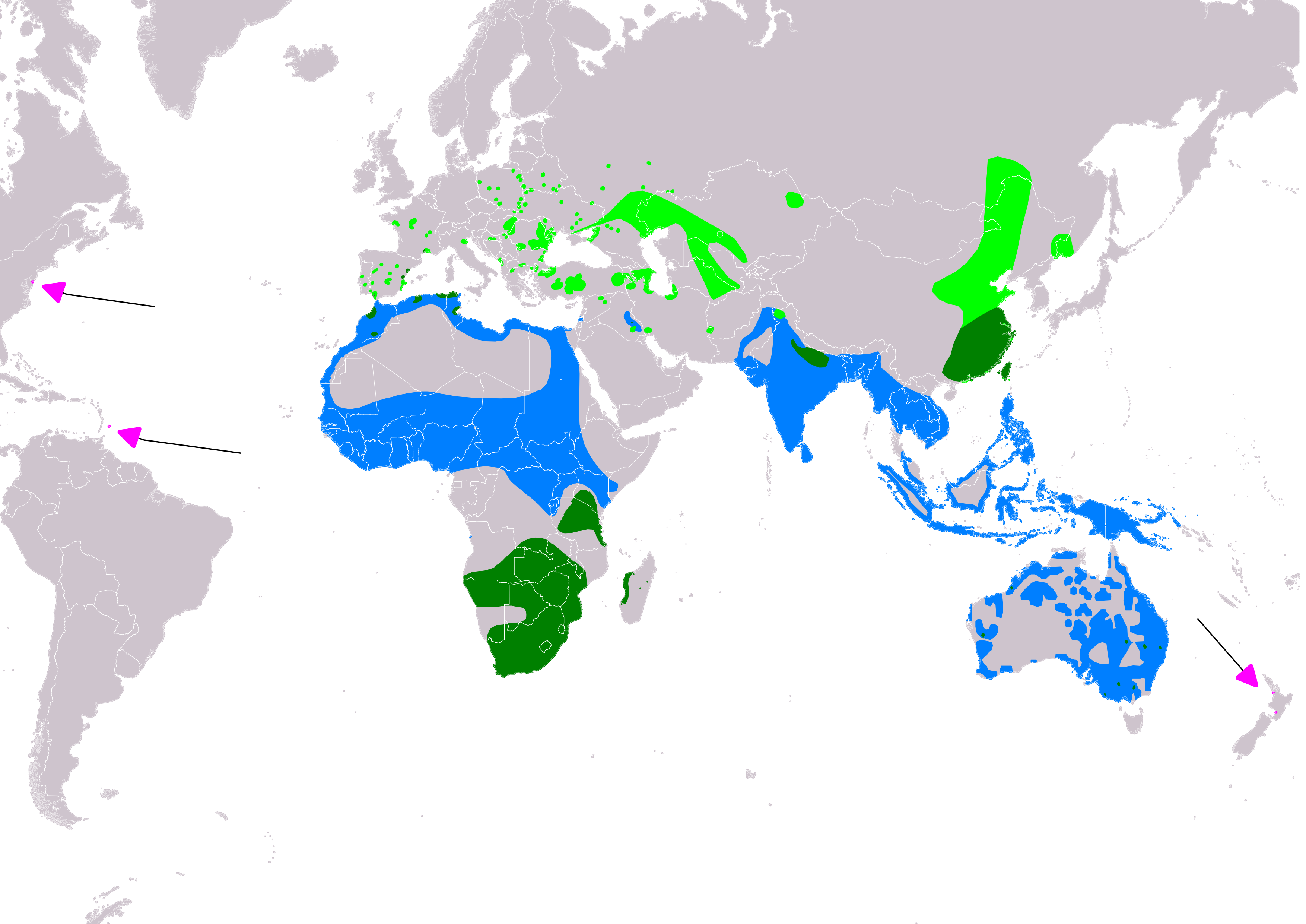 Distribution map of Whiskered Tern (Chlidonias hybridus) according to IUCN version 2019.3; key: Legend: Extant, breeding (#00FF00), Extant, resident (#008000), Extant, non-breeding (#007FFF), Extant & Vagrant (seasonality uncertain) (#FF00FF)